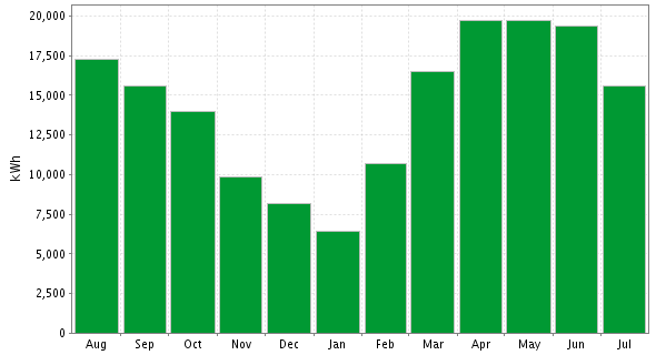 Monthly output from the PG&E solar panels installed at San Francisco Giants AT&T Park, over the period from August 1, 2007 to July 31, 2008. The panels are rated at 122.72 kWp DC, and were installed on July 9, 2007.